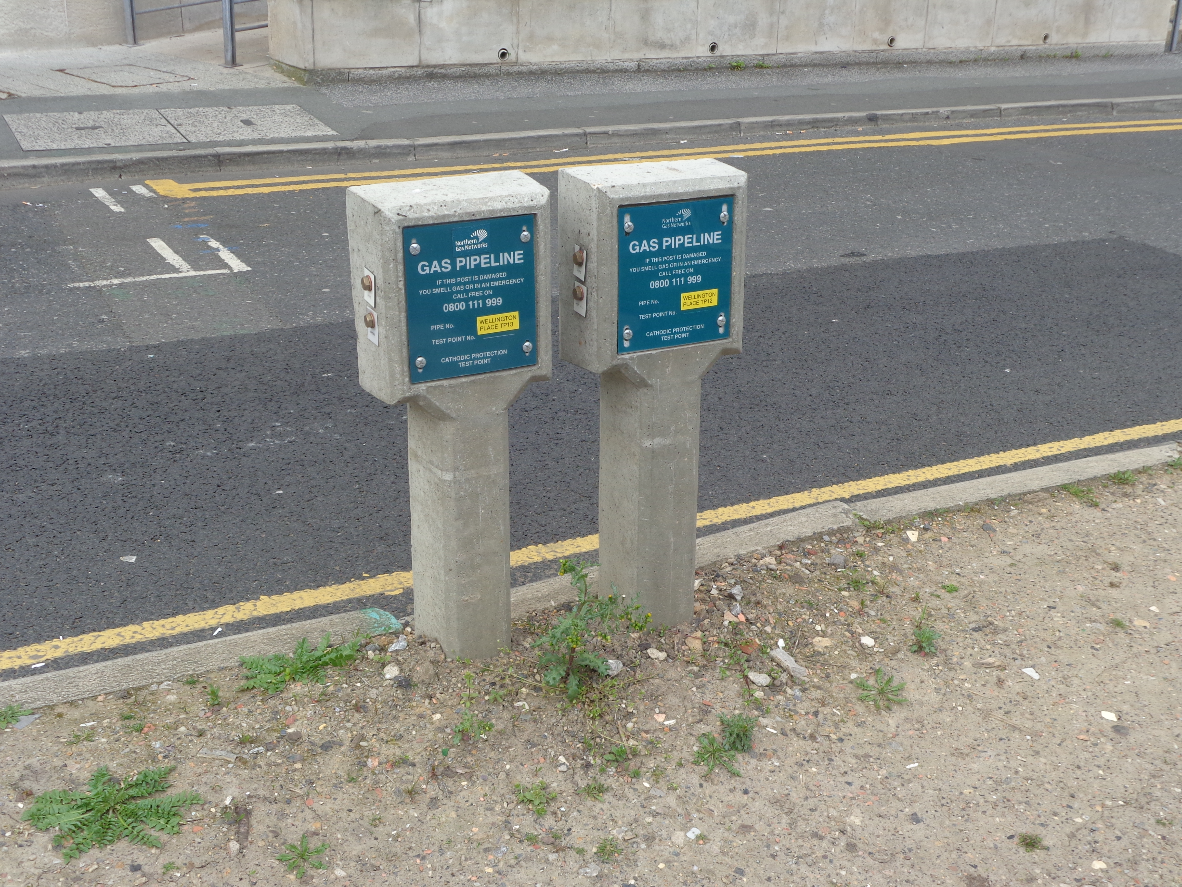 Gas Mains cathodic protection markers, Wellington Street, Leeds, West Yorkshire. Taken on the afternoon of Saturday the 12th of April 2014.